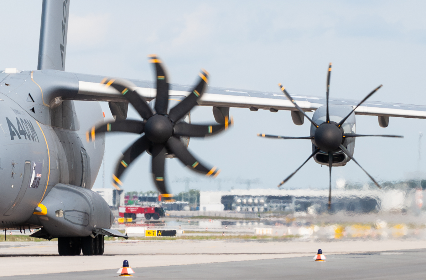 Airbus A400M (EC-404; MSN 004) at ILA Berlin Air Show 2012.